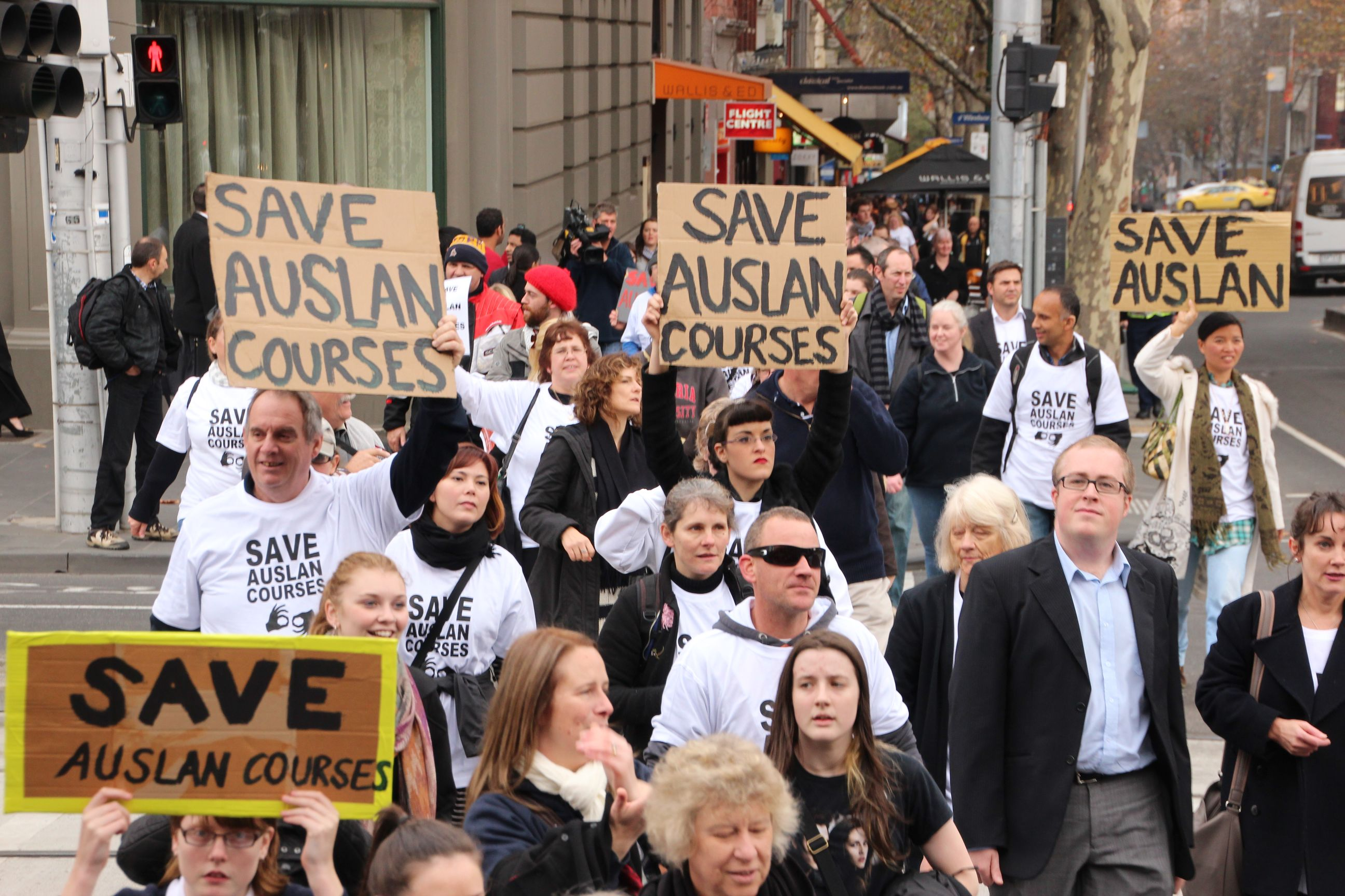 May 30: Over 500 people from the Victorian deaf community and supporters gathered at Federation Square then marched silently to Parliament House to protest the decision by Premier Ted Baillieu and the Victorian Government to slash $300 million in budget cuts from the TAFE education system which has resulted in Kangan Batman TAFE Institute discontinuing the only Victorian Diploma course in Auslan - the Australian sign language.